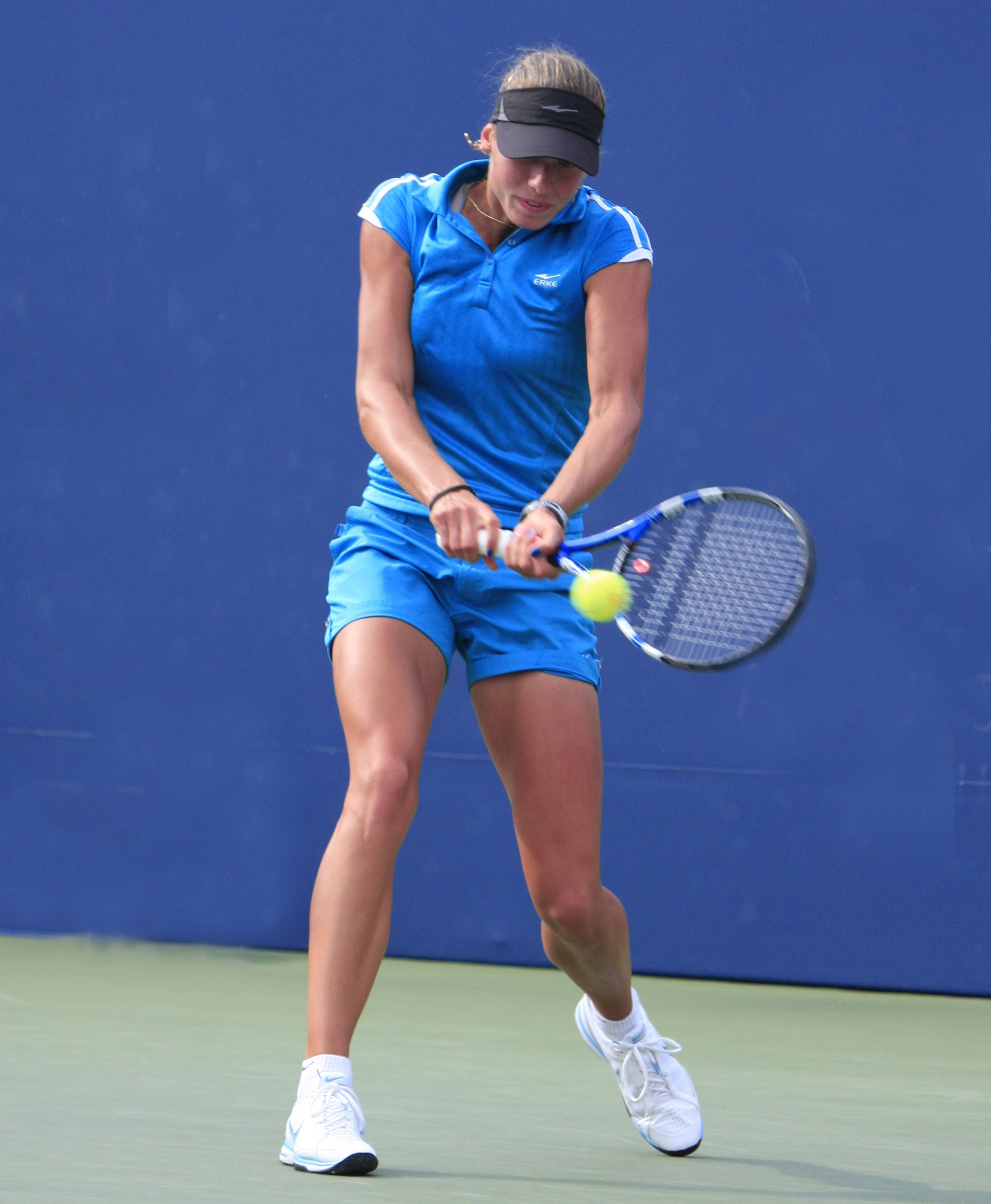 Yanina Wickmayer, a Belgian tennis player at the 2009 US Open tournament.